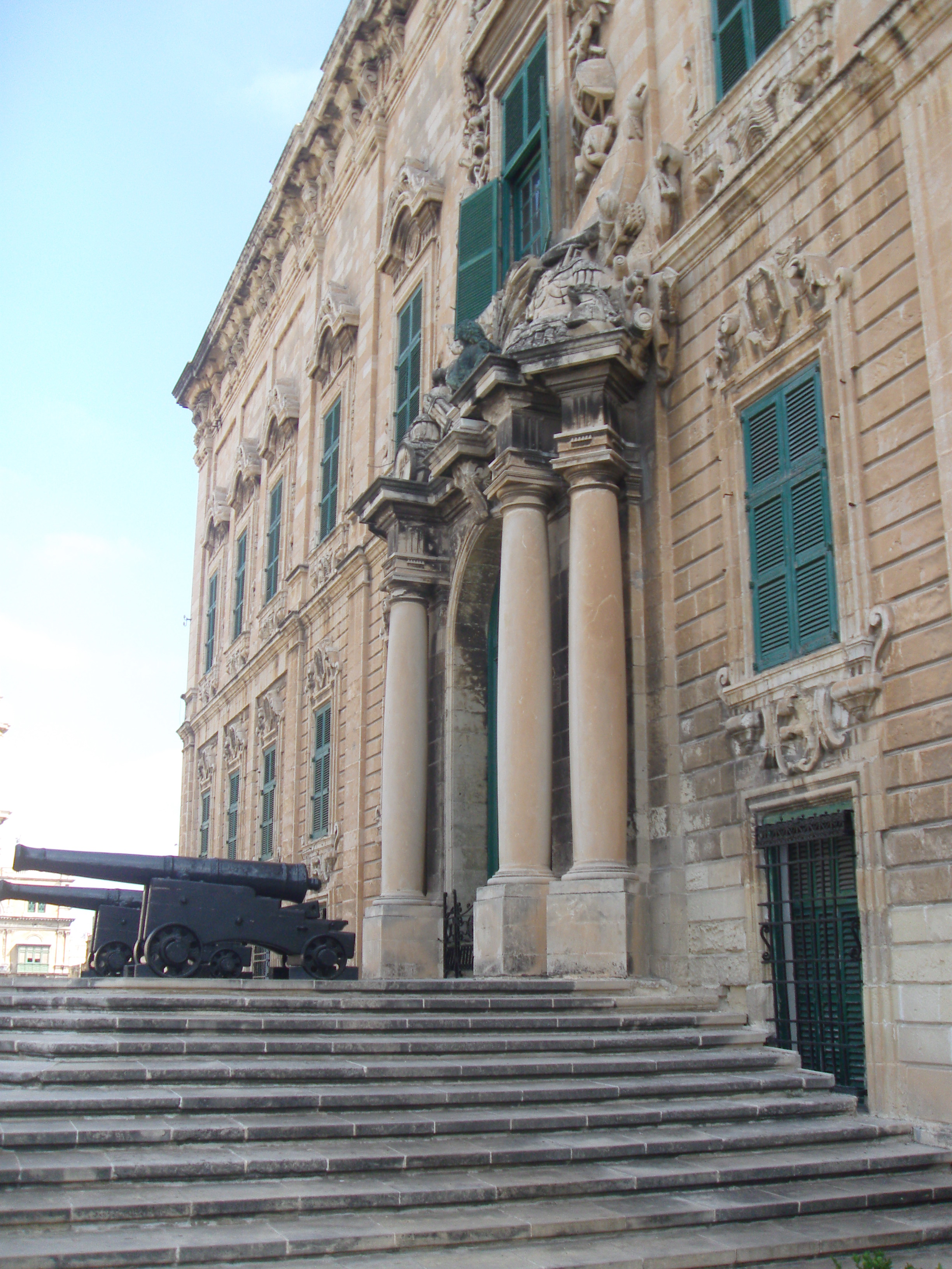 Auberge of Castile, Valletta, Malta